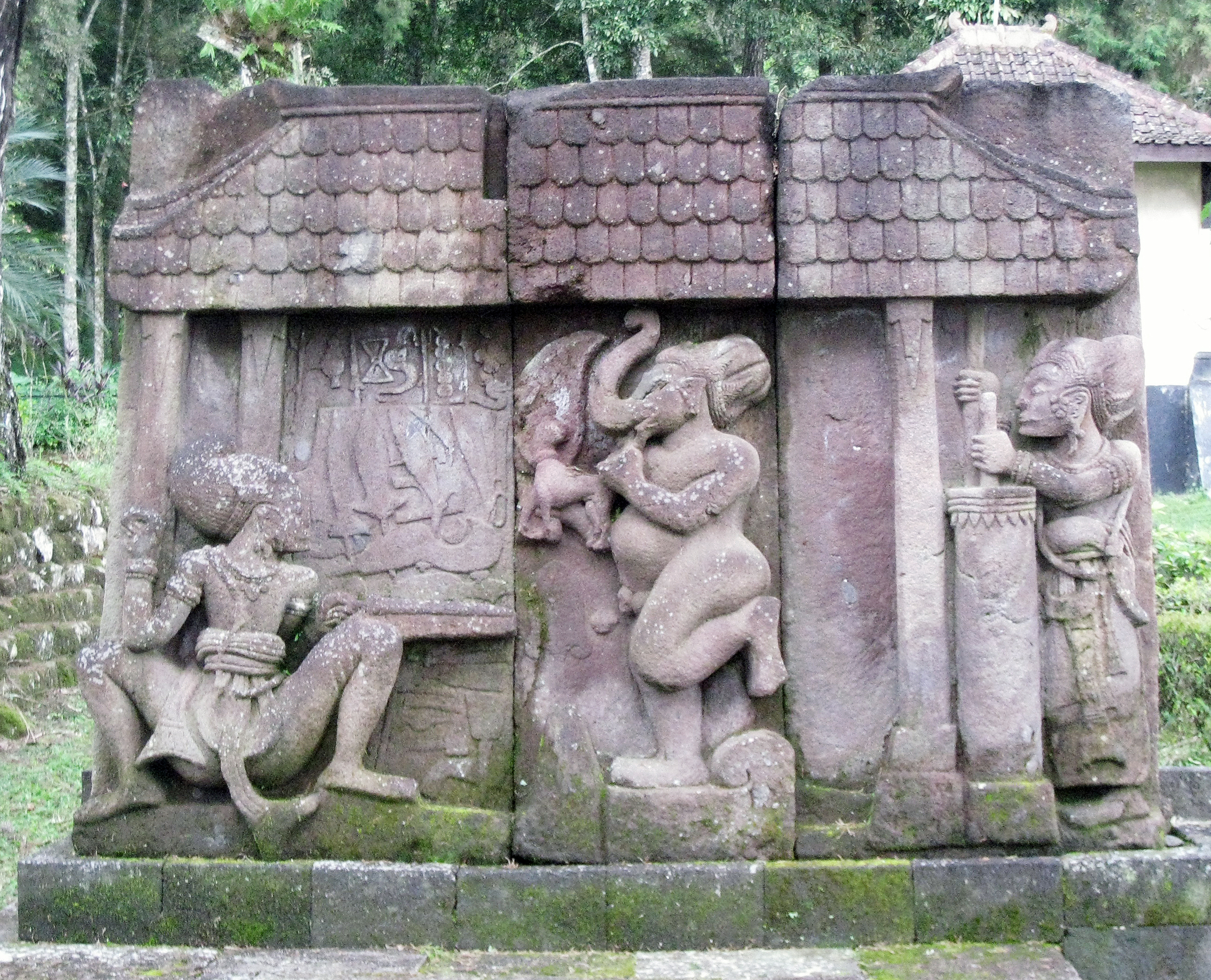 The scene in bas relief of Sukuh Temple in Central Java dated from 15th century Majapahit era shows the workshop of a Javanese keris blacksmith. The scene depicted Bhima as the blacksmith in the left forging the metal, Ganesha in the center, and Arjuna in the right operating the tube blower to pump air into the furnace. The wall behind the blacksmith displays various items manufactured in the forge, including keris. These representations of the keris in Candi Sukuh established the fact that by the year 1437 the keris had already gained an important place within Javanese culture.